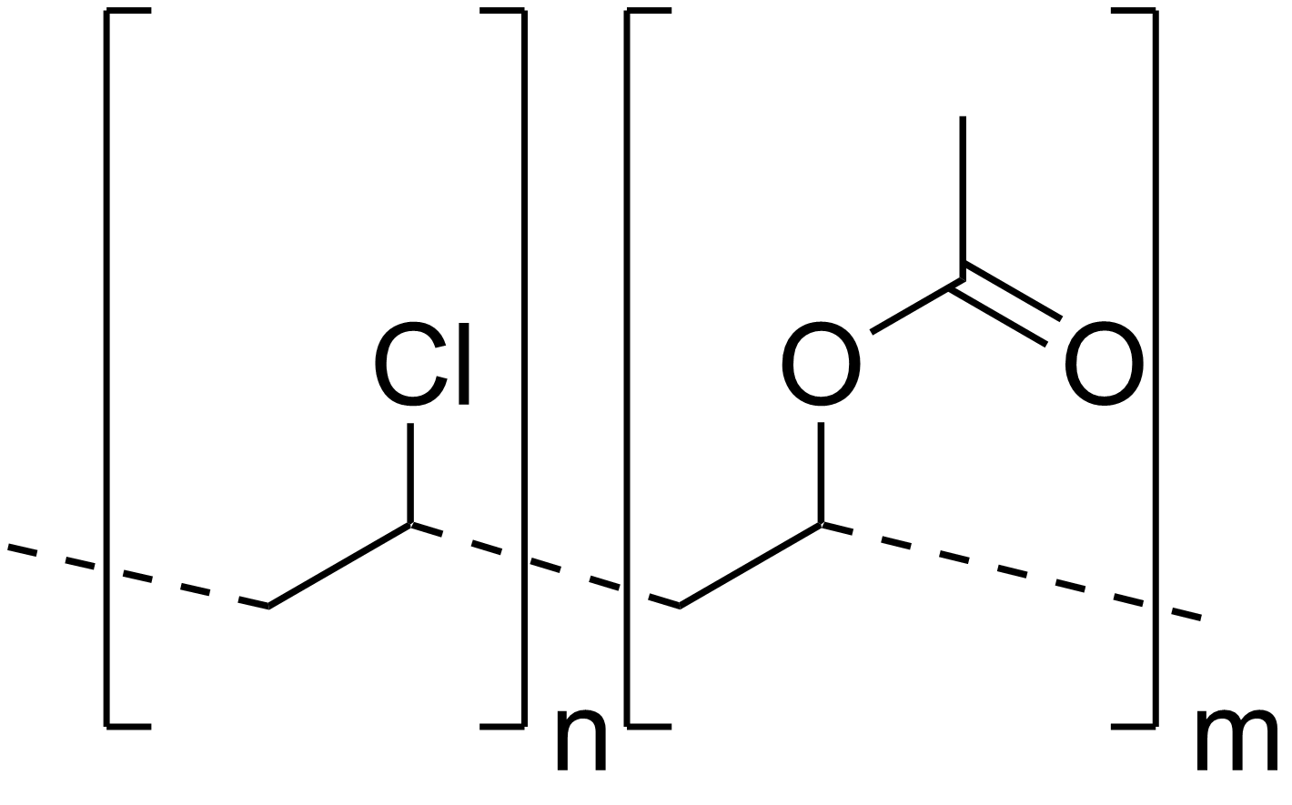 Chemical structure of Polyvinyl chloride acetate